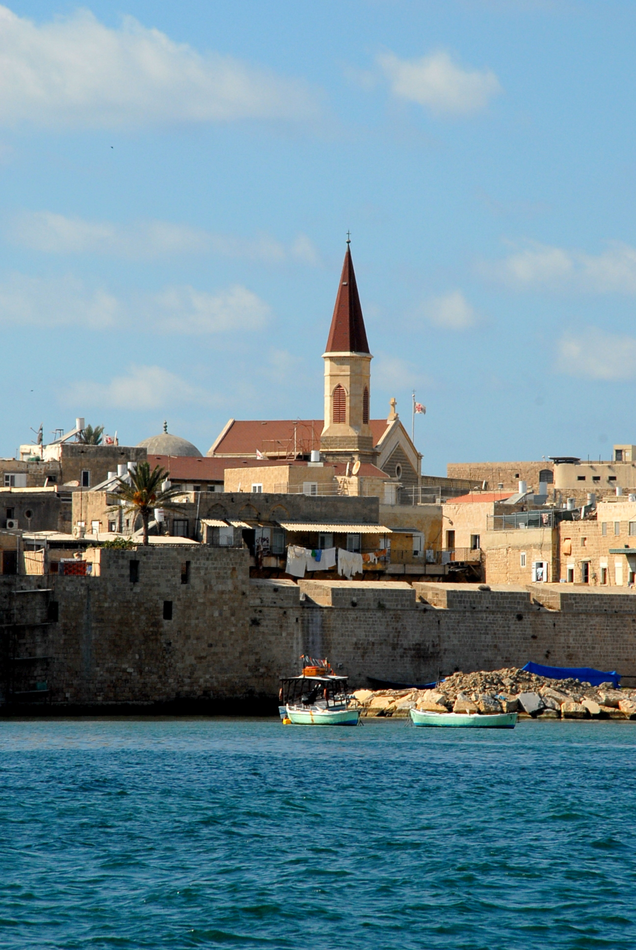 taking a picture from a boat, old city-akko.